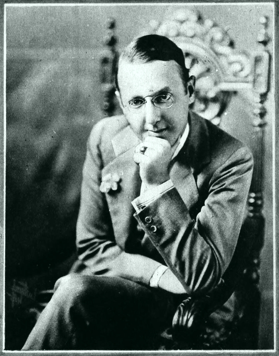 Jesse Lasky in his New York office, a photograph published in 1920